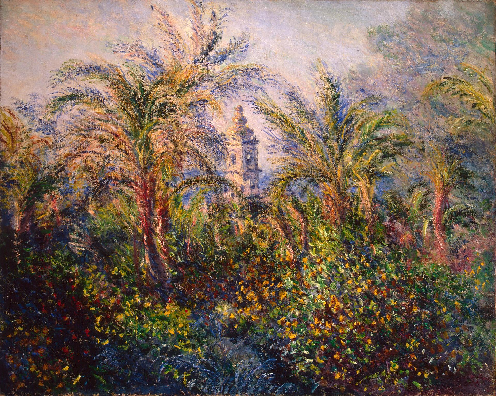 Claude Monet, Garden in Bordighera, Impression of Morning, 1884, oil on canvas, 65.5 x 81.5 cm